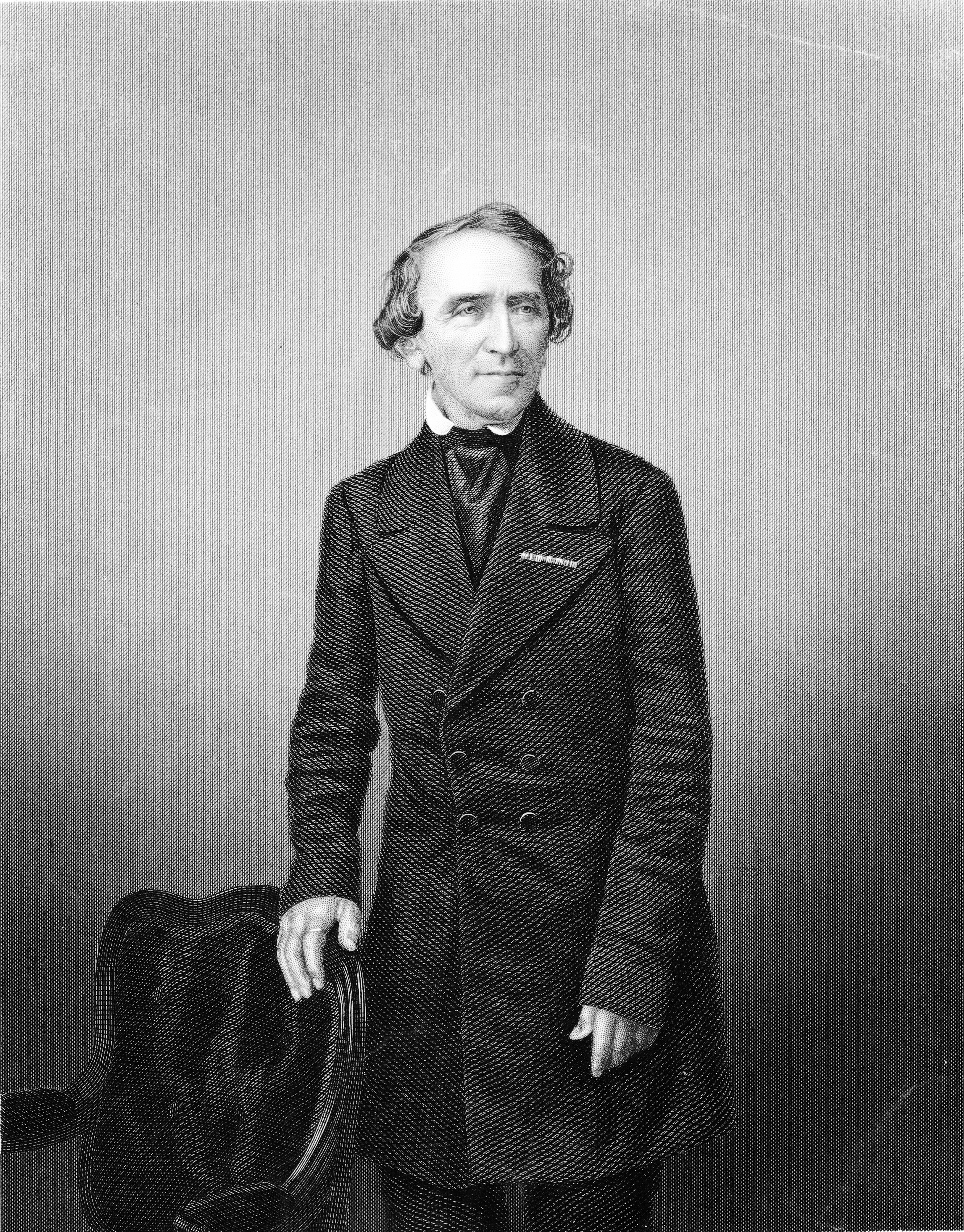 Portrait of Giacomo Meyerbeer (1791-1864)